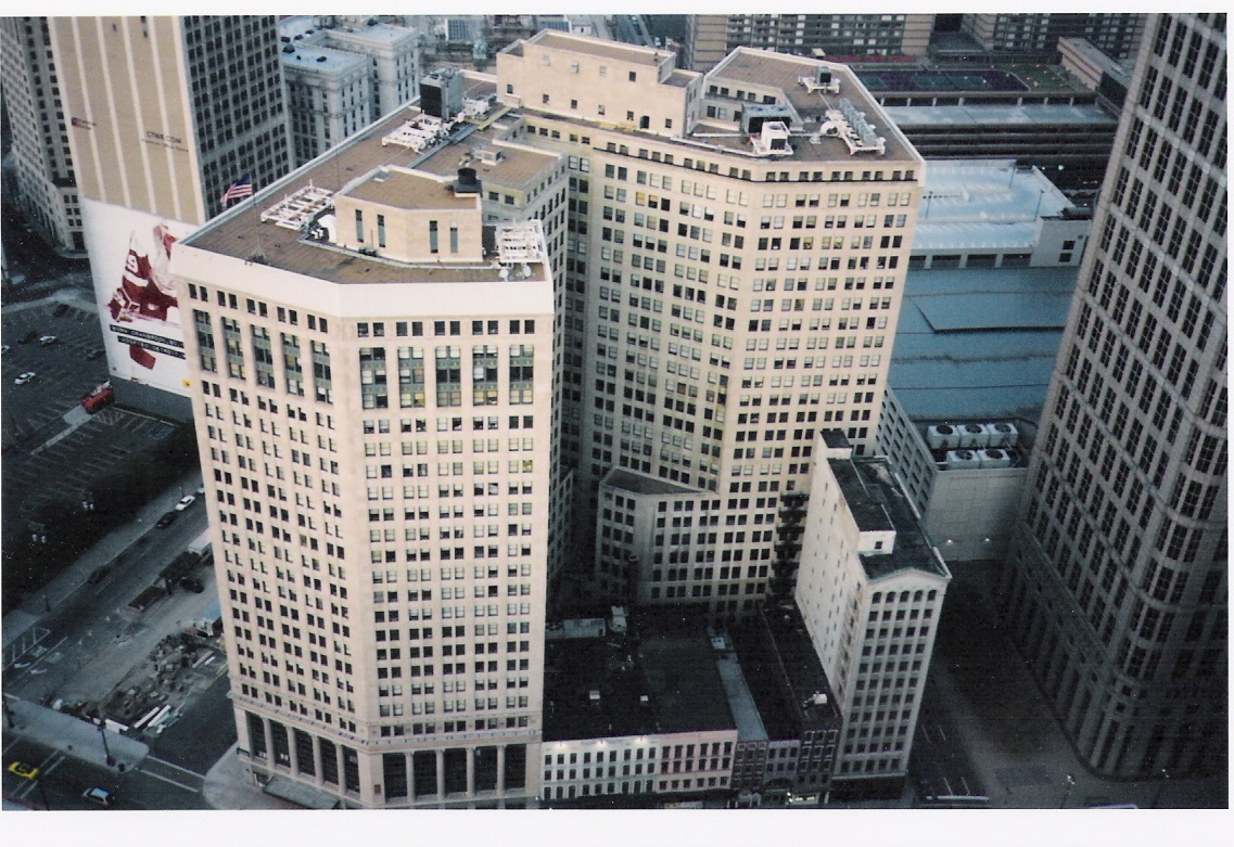 Photo of First National Building in Detroit. Taken by Funnyhat in the summer of 2004.